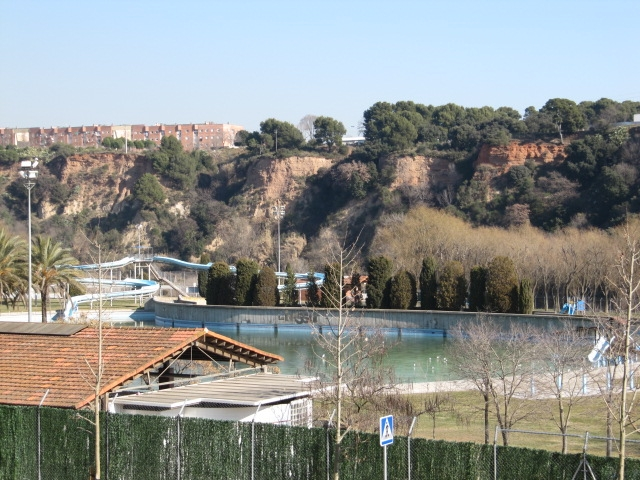 La piscina municipal de La Bassa de Sant Oleguer vista des des de la Pista Coberta d'Atletisme de Catalunya (Sabadell, Vallès Occidental, Catalonia).